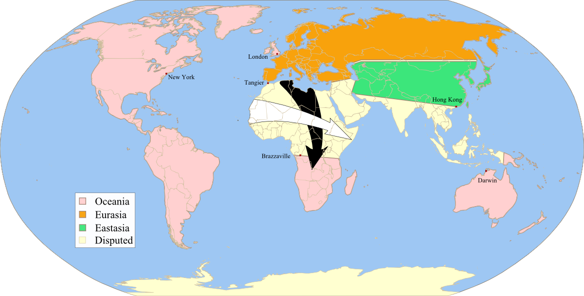 Fictitious map, illustrating the political landscape of Orwell's Nineteen-Eighty-four, approximate map of the "Black arrows" and "white arrows" described at the end of the book, rendered from Image:1984_fictious_world_map_v2.svg, inspired by Image:1984_fictious_world_map.png and Image:1984_Orwell_arrows_2.png, based on Image:BlankMap-World6.svg, created following Wikipedia's map color standard.